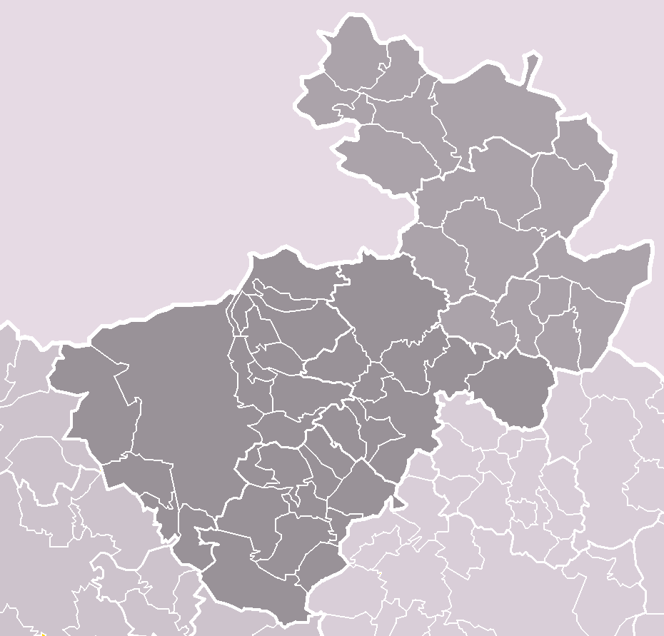 Location of administrative area of Děčín as a Municipality with Extended Competence within Děčín District. Darker grey in southwestern half of the district represents MEC area of Děčín, remaining lighter grey part represents MEC areas of Rumburk and Varnsdorf. White lines of variable thickness show boundaries of municipalities, administrative areas, districts, regions and nations.